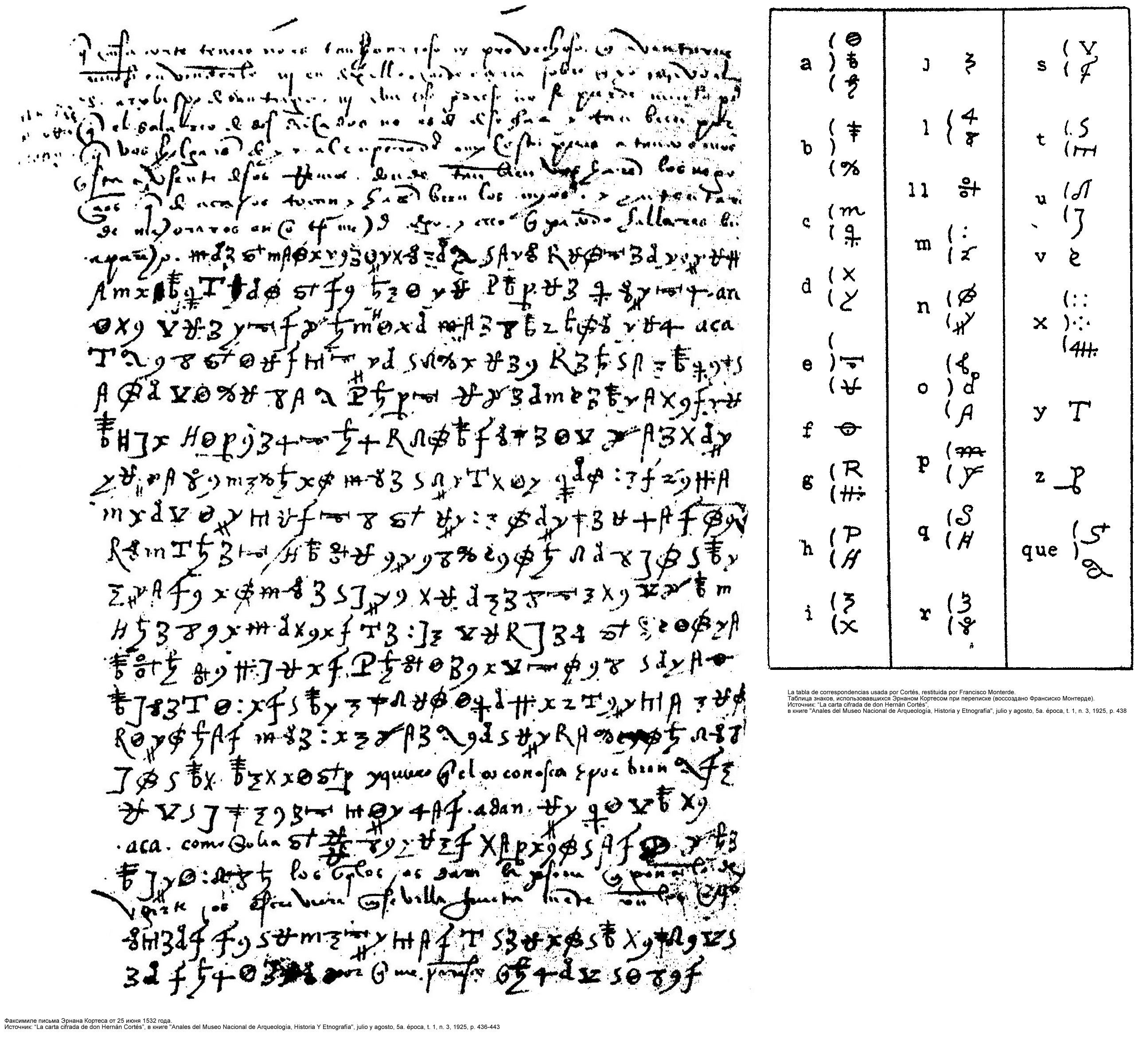 “La carta cifrada de don Hernán Cortés”, in "Anales del Museo Nacional de Arqueología, Historia Y Etnografía", julio y agosto, 5a. época, t. 1, n. 3, 1925, p. 436-443